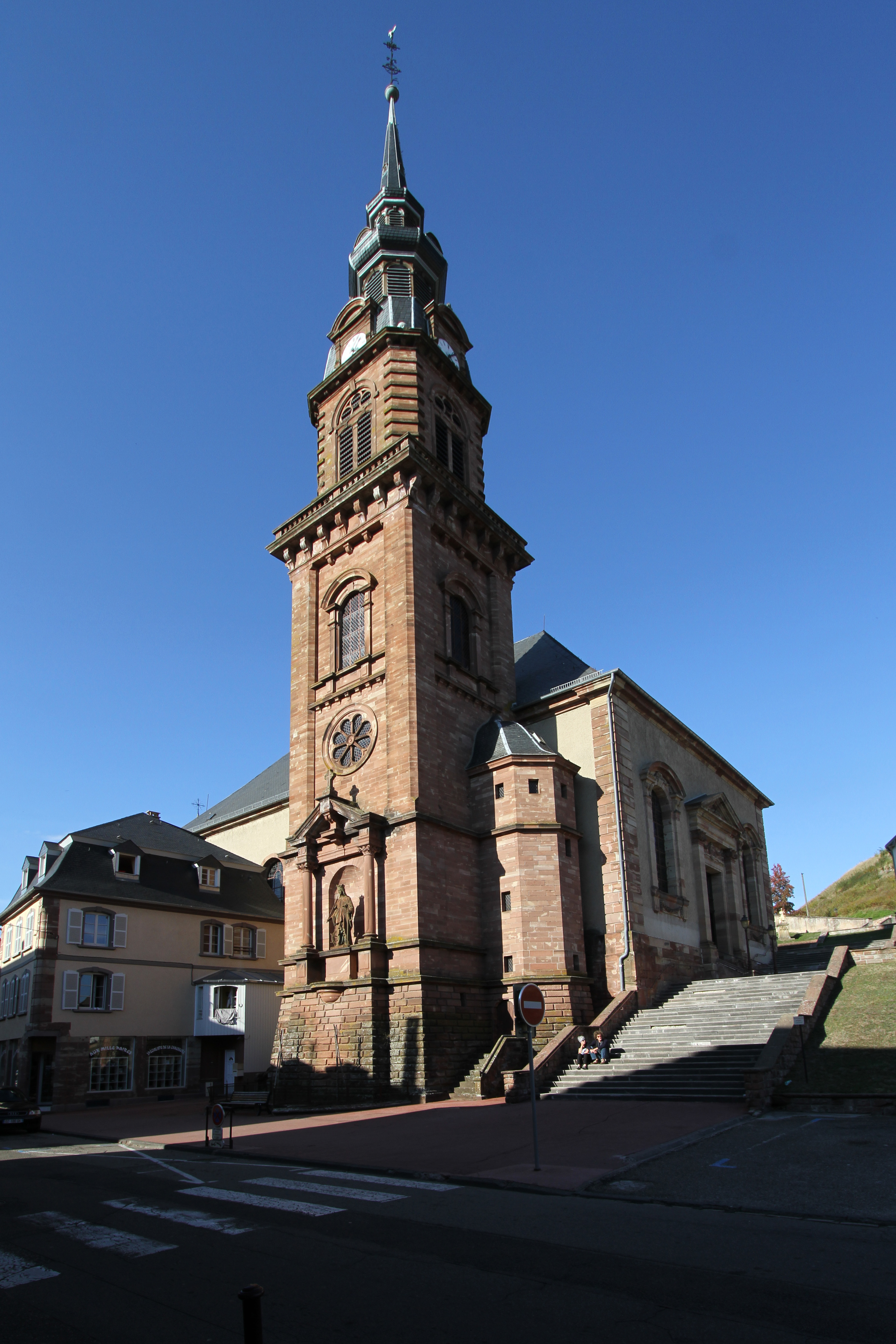 Church of Saint Catherine in Bitche